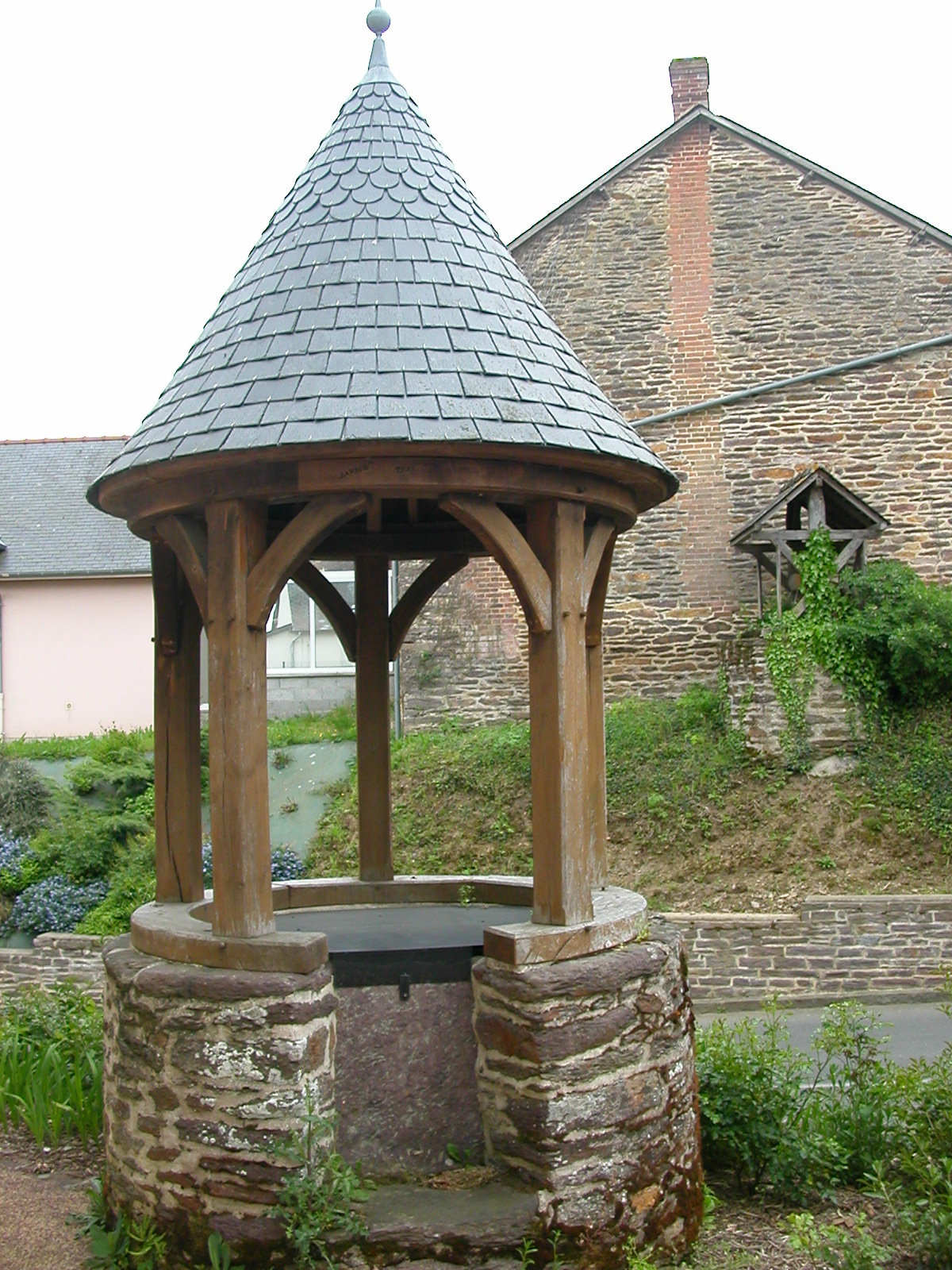 Water wells in the center of Saint-Erblon